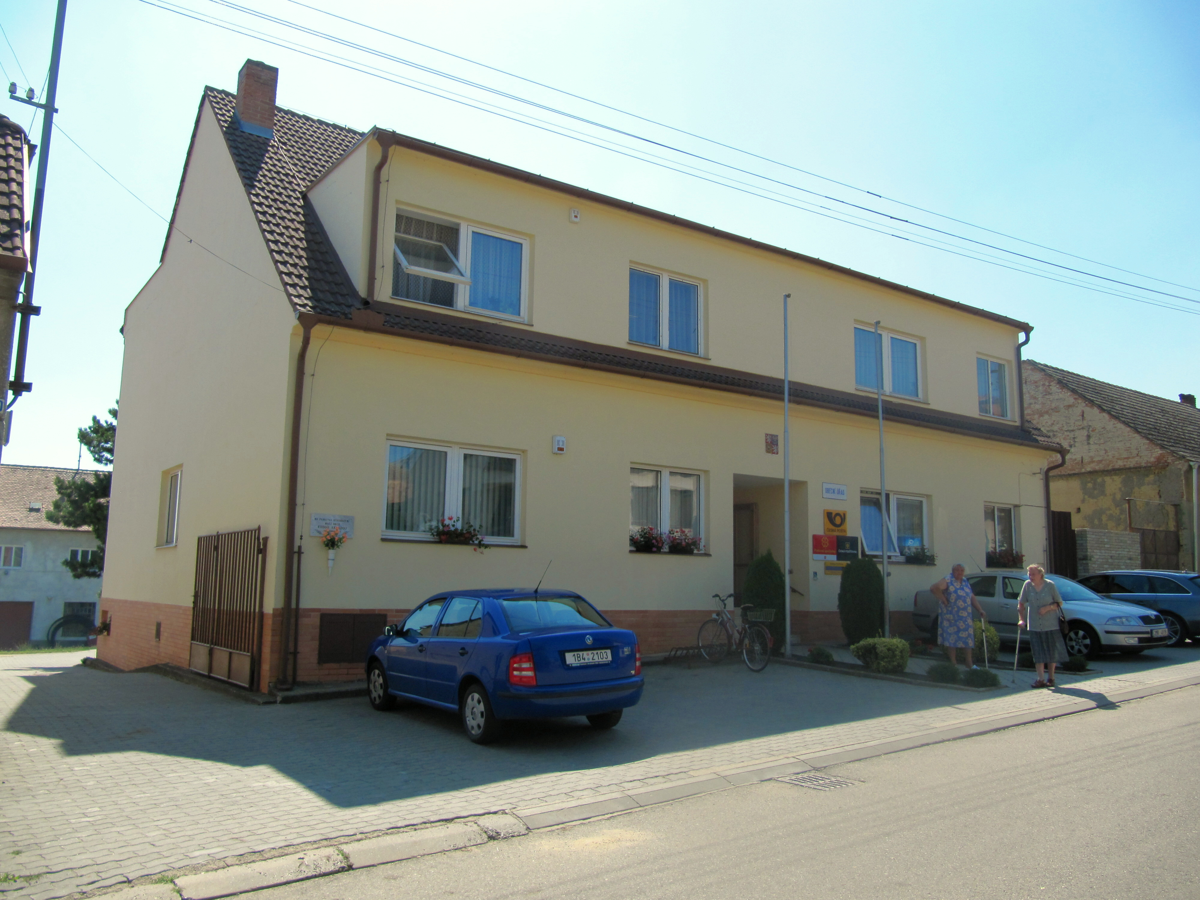 Starý Poddvorov in Hodonín District, Czech Republic. Municipal office.